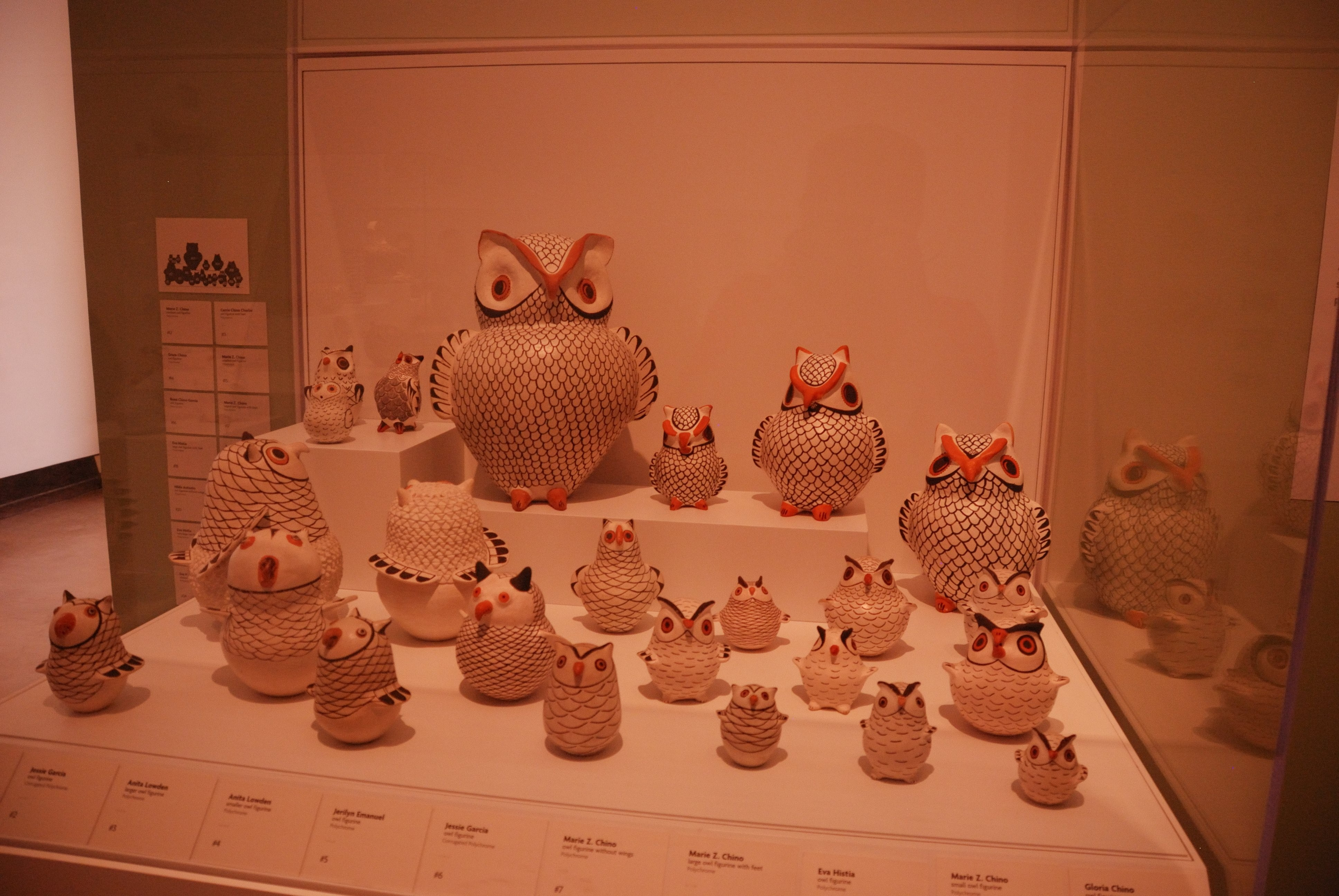 Acoma Owl Pottery, New Mexico, USA